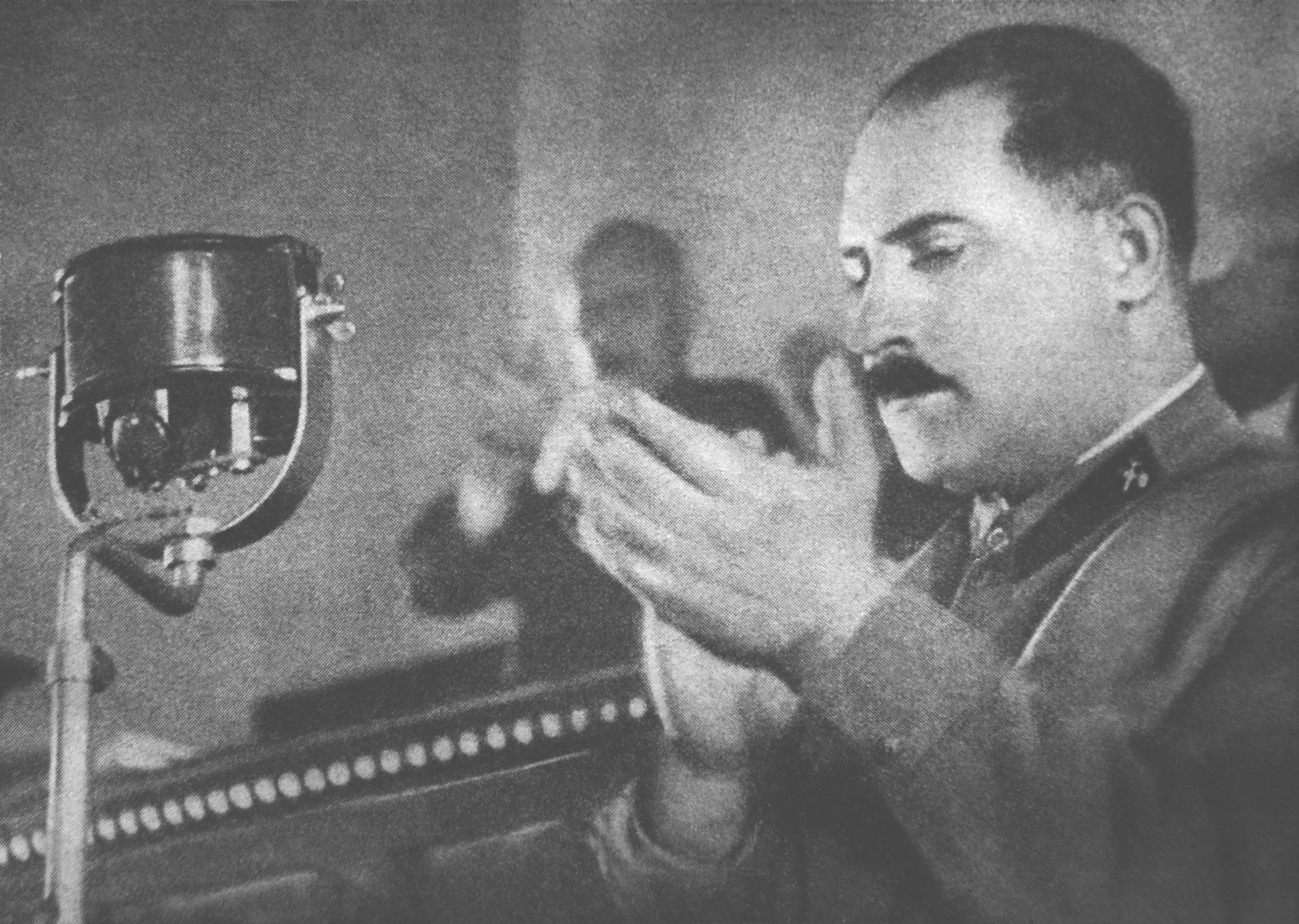 Lazar Kaganovich was nicknamed Iron Lazar for his ruthlessness in implementing Stalin's order. As Politburo member he personally signed 188 Stalin's execution lists, containing names of more than 19,000 people. He approved “the quotes” for categories in the NKVD Order № 00447. His brother Mikhail Kaganovich committed suicide expecting arrest and execution.